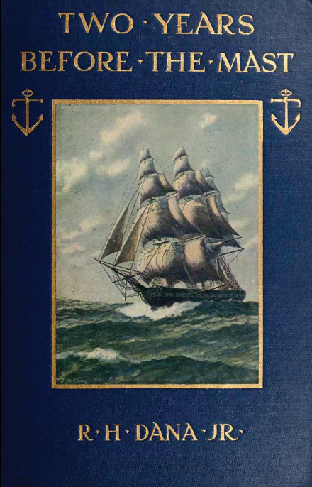 Book Cover for Two Years Before the Mast